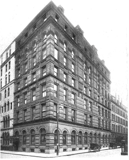 Young's Hotel, Boston, ca.1910. The white building at far left is the Sears building (1869-1967).